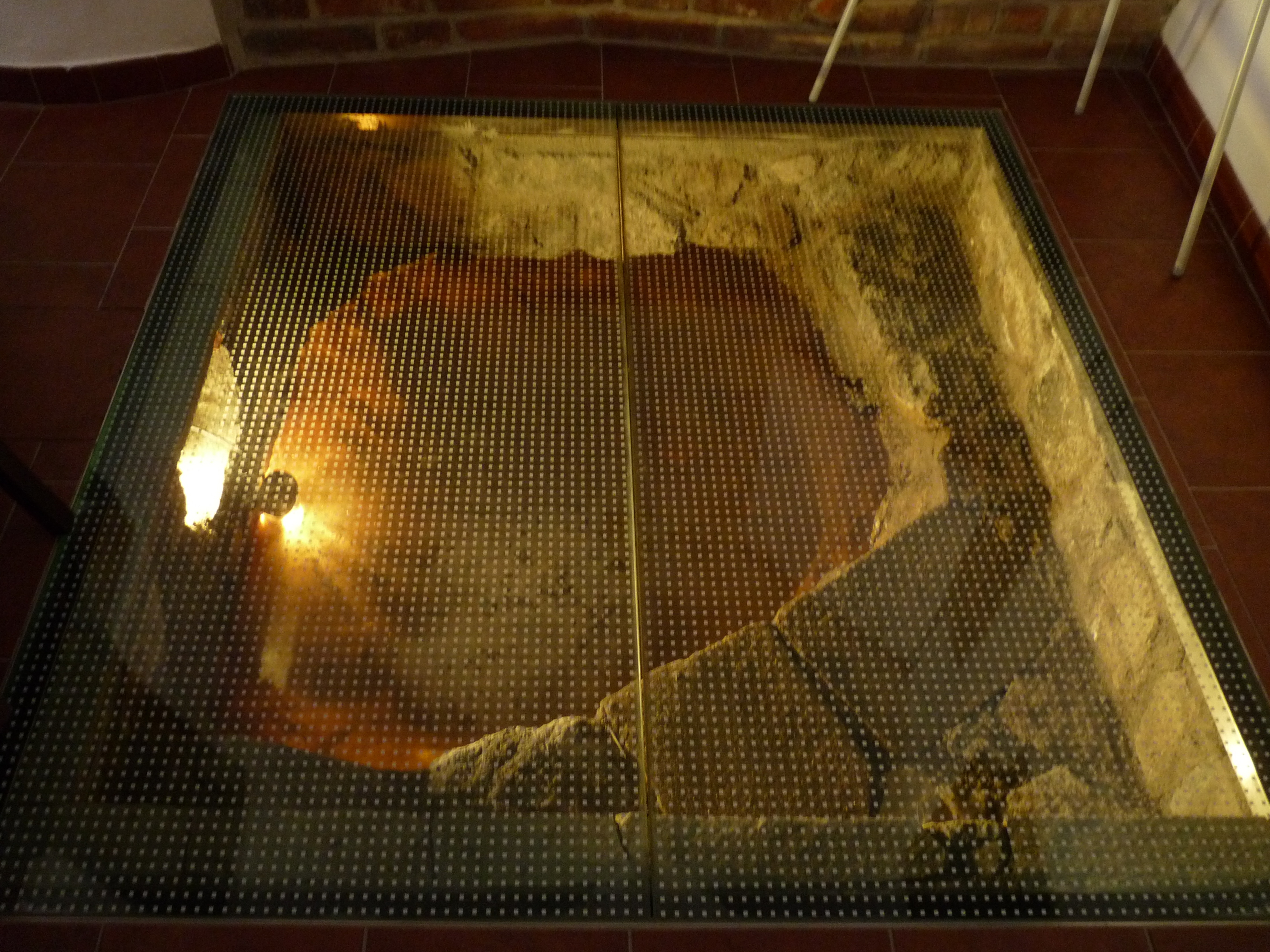 Preserved mikveh in house No 85 in Skalní Street (V Mezírce Street 140/1) in the Jewish Quarter protected by UNESCO in Třebíč (Trebitsch), Vysočina Region, Czech Republic.